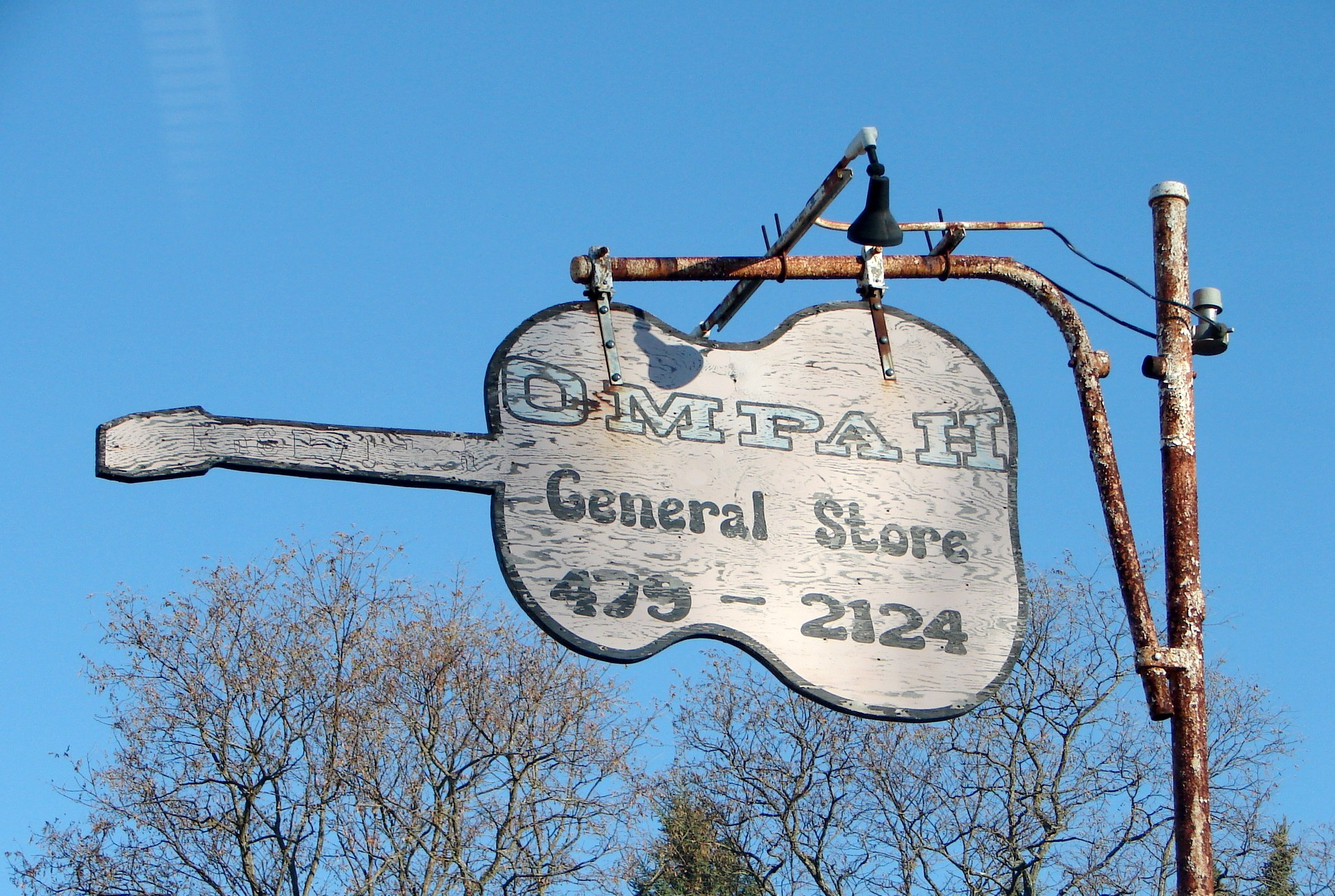 Old commercial sign in Ompah (North Frontenac Township), Ontario, Canada